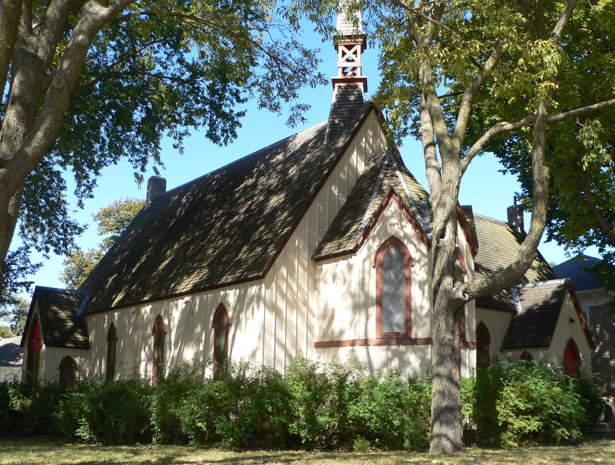 St. Stephen's Episcopal Church, located at northwest corner of 16th and Adams Streets in Ashland, Nebraska. The building is listed in the National Register of Historic Places. It is not in current use as a church. View is from the southeast.